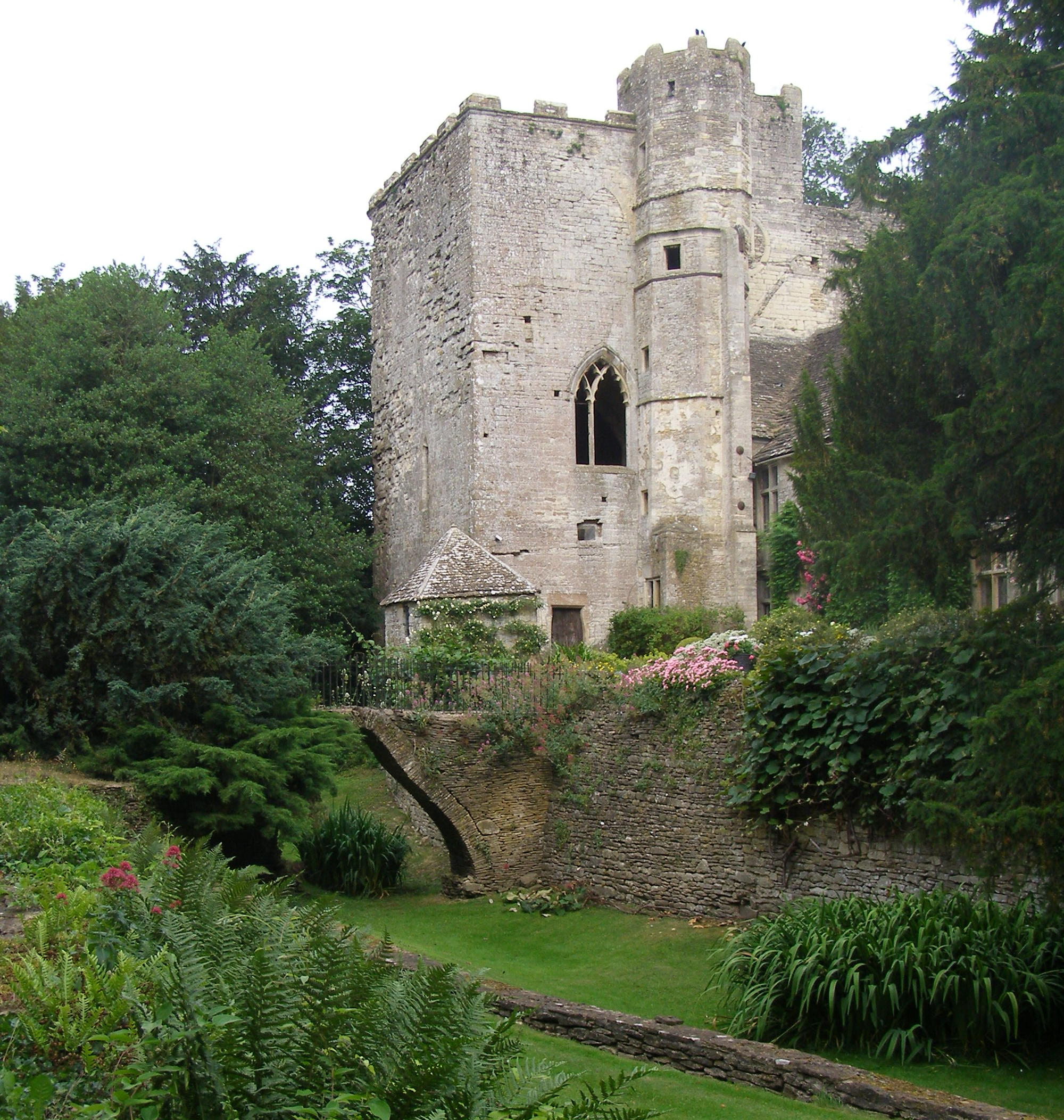 Photographer C. Michael Hogan, the copyright holder, licences this image as described below. Photo taken July 6, 2006 Photo of Beverston Castle gatehouse, Gloucestershire, England